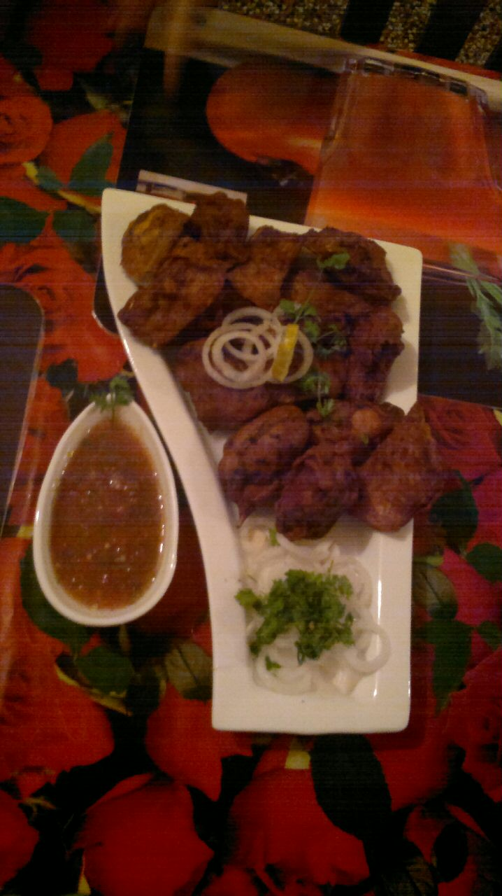 Machli Kababs With Tomato Dip